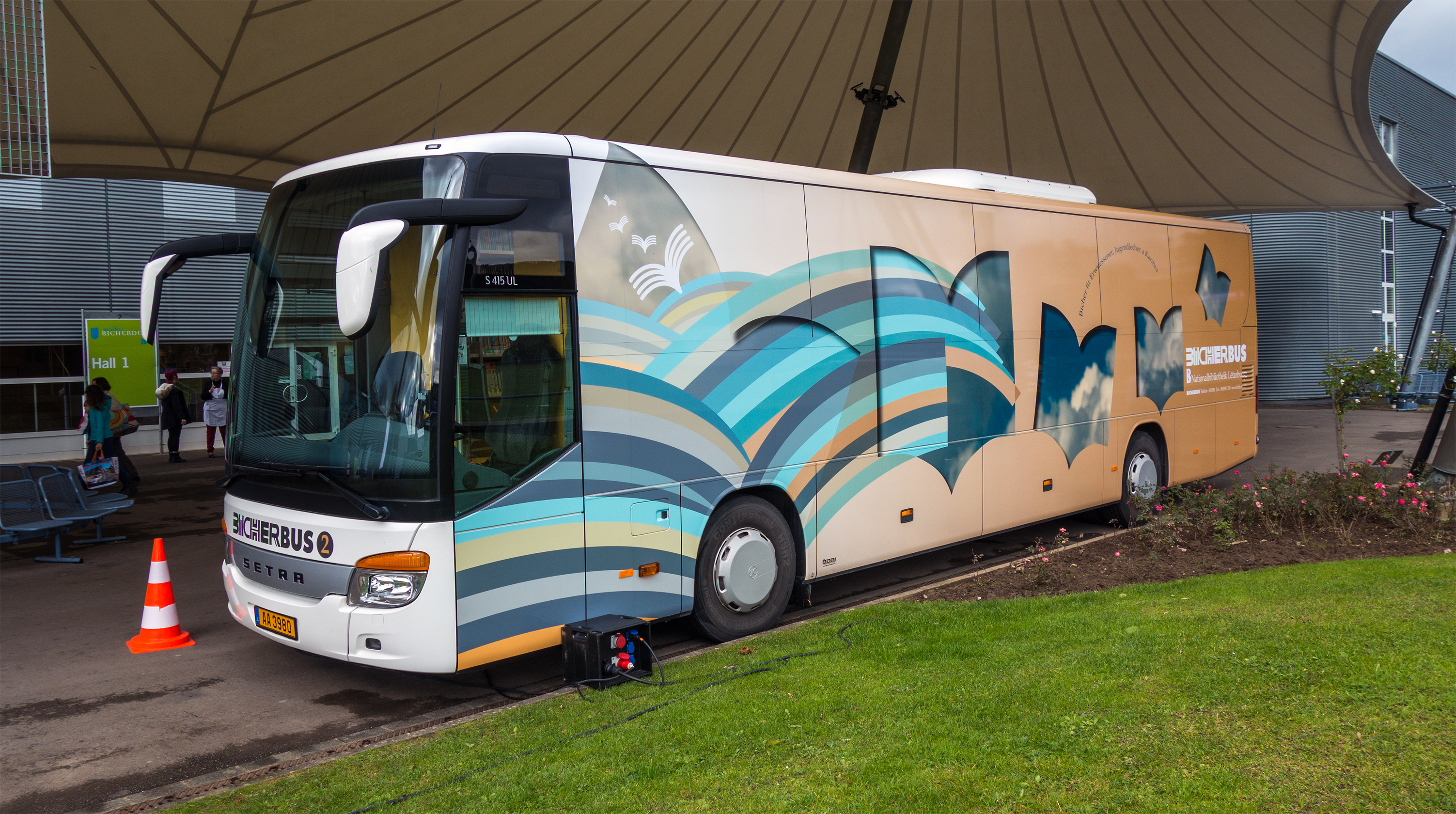 Rolling library of the luxembourgish national library at the "book days" in Walferdange. This is based on a Setra S415 UL.